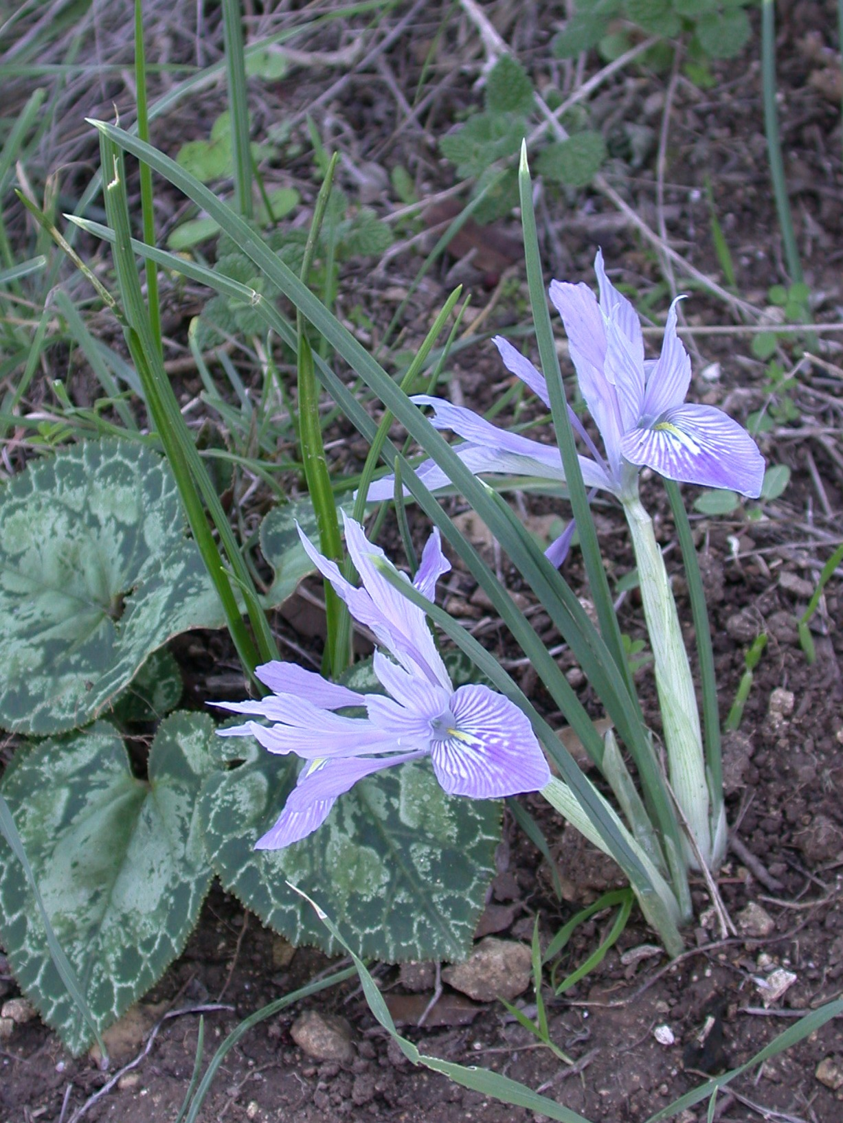 Iris vartanii Foster (אירוס הסרגל), Mount Carmel, Israel, November 15, 2008.